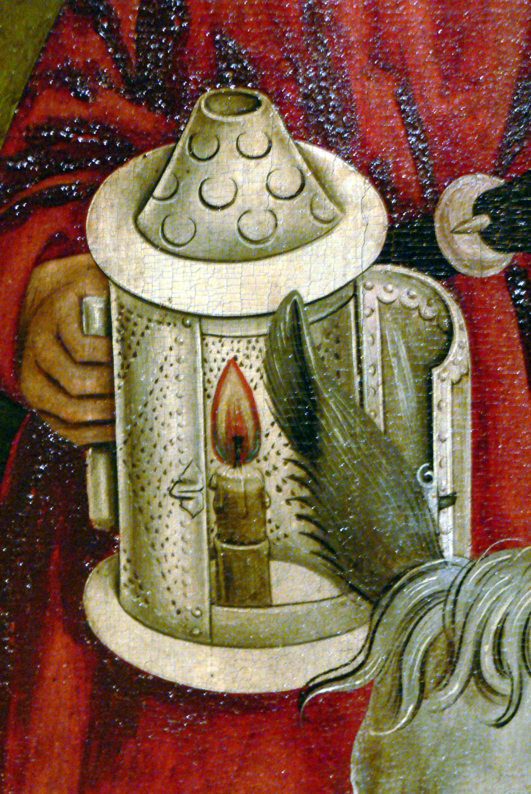 Oberhausmuseum ( Passau ). Nativity ( 15th century ) - detail: Lantern in the hand of Saint Joseph.